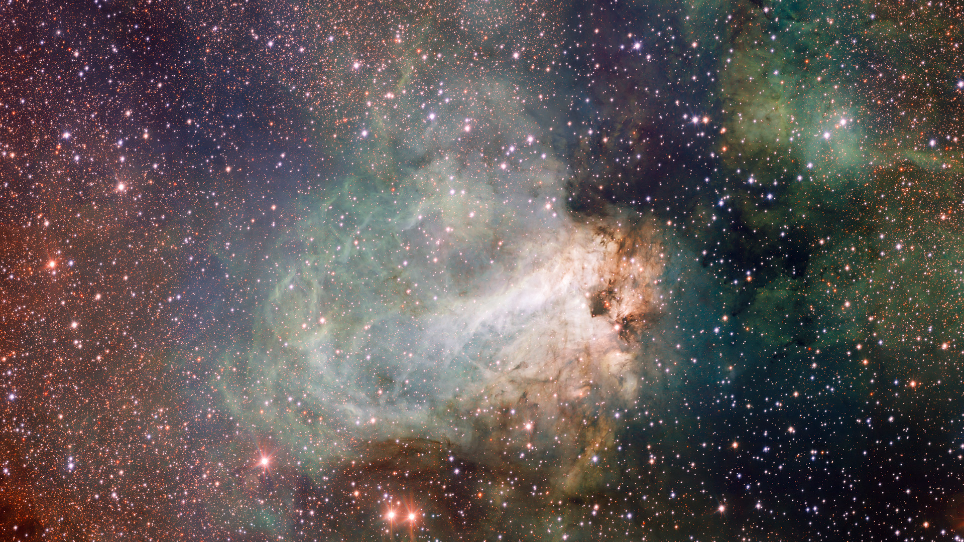 The first released VST image shows the spectacular star-forming region Messier 17, also known as the Omega Nebula or the Swan Nebula, as it has never been seen before. This vast region of gas, dust and hot young stars lies in the heart of the Milky Way in the constellation of Sagittarius (The Archer). The VST field of view is so large that the entire nebula, including its fainter outer parts, is captured — and retains its superb sharpness across the entire image